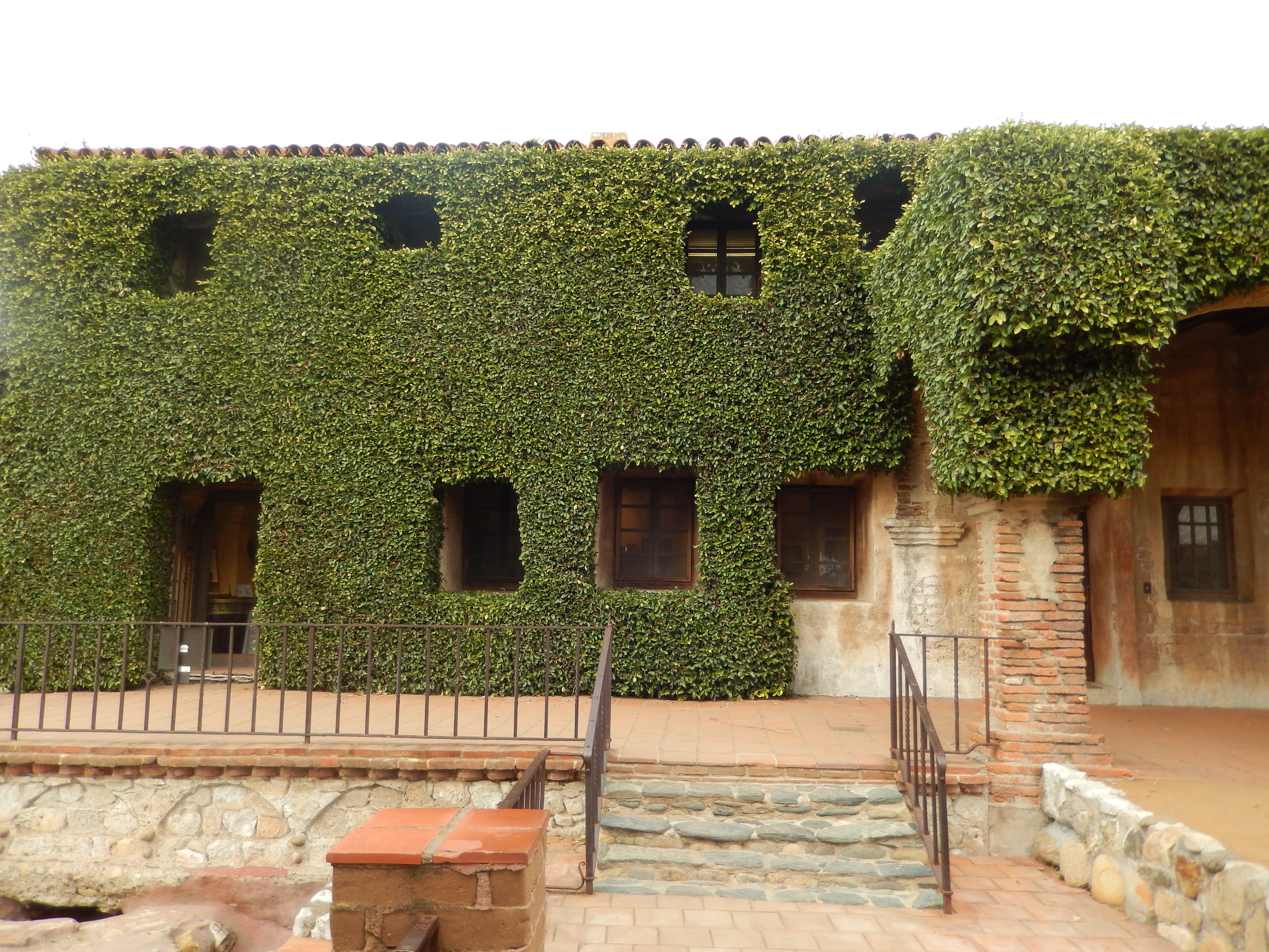 I took photo of hedges at Mission San Juan Capistrano, CA, with Nikon camera.